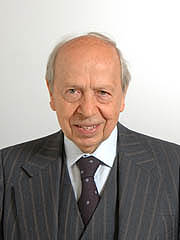 Lamberto Dini, Italian politician